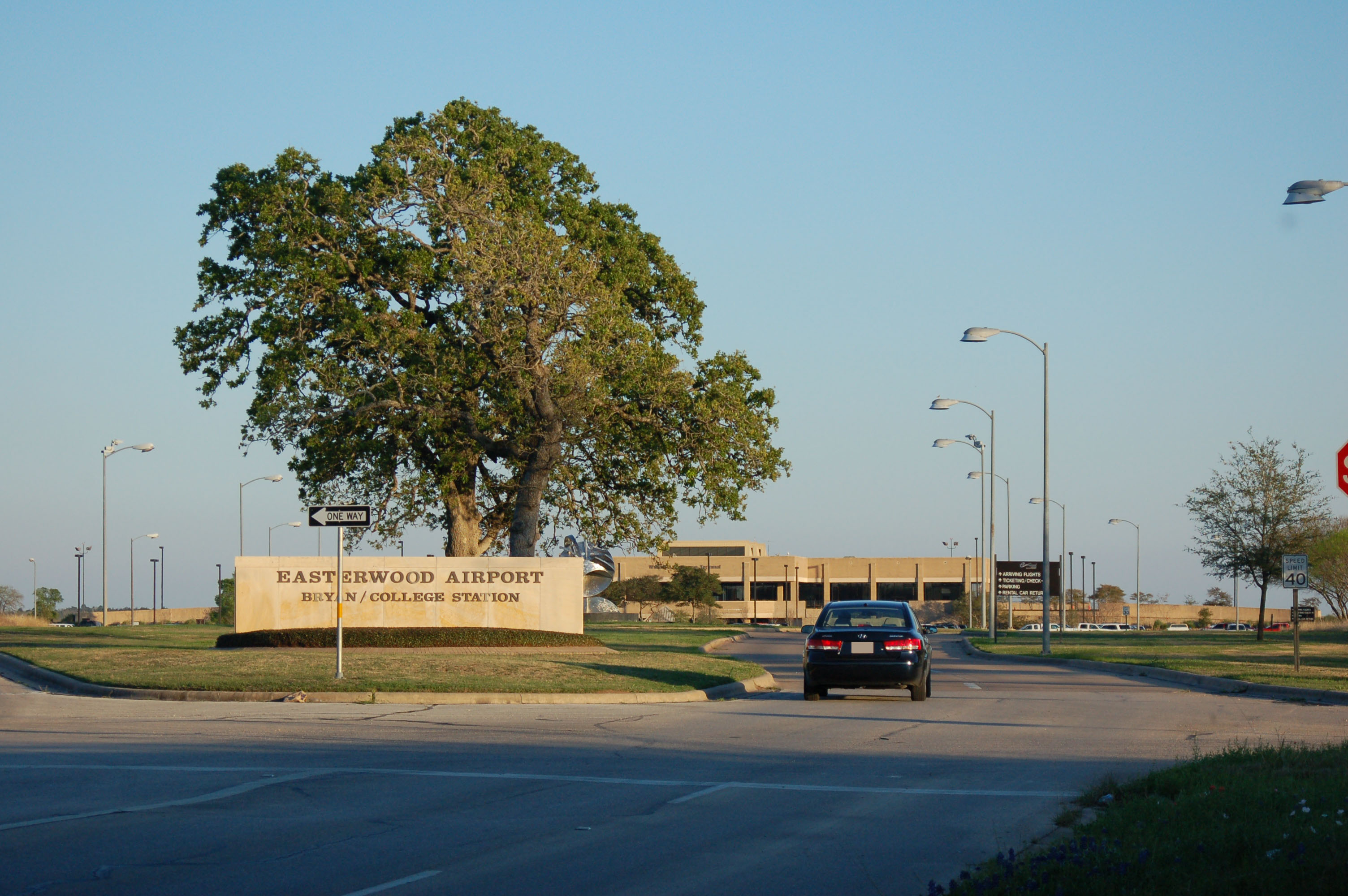 Picture of found of Easterwood Airport.